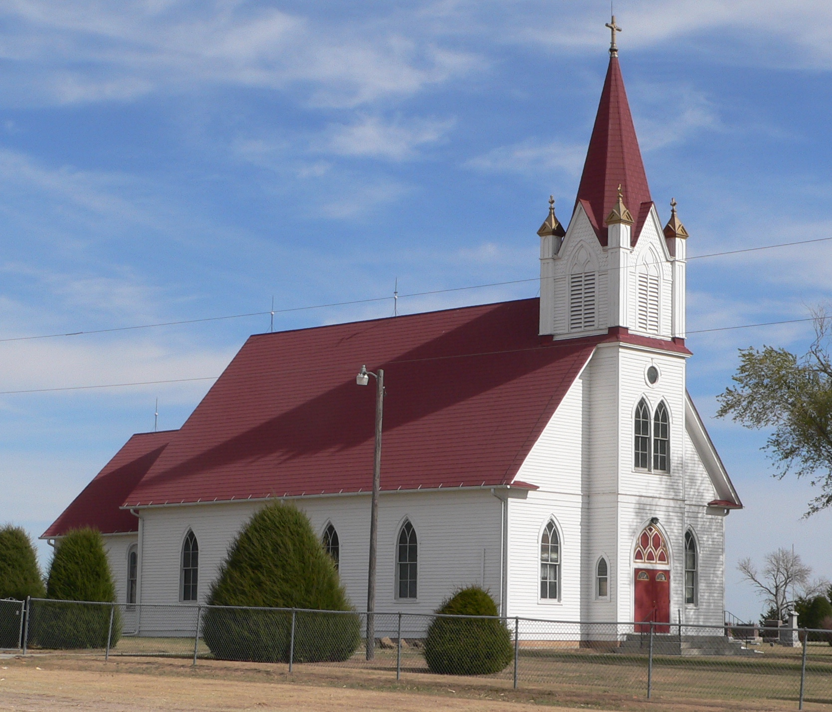 Stockholm Swedish Lutheran Church, located on county road U between county roads 3 and 4, southwest of Shickley in rural Fillmore County, Nebraska. View is from the southwest.